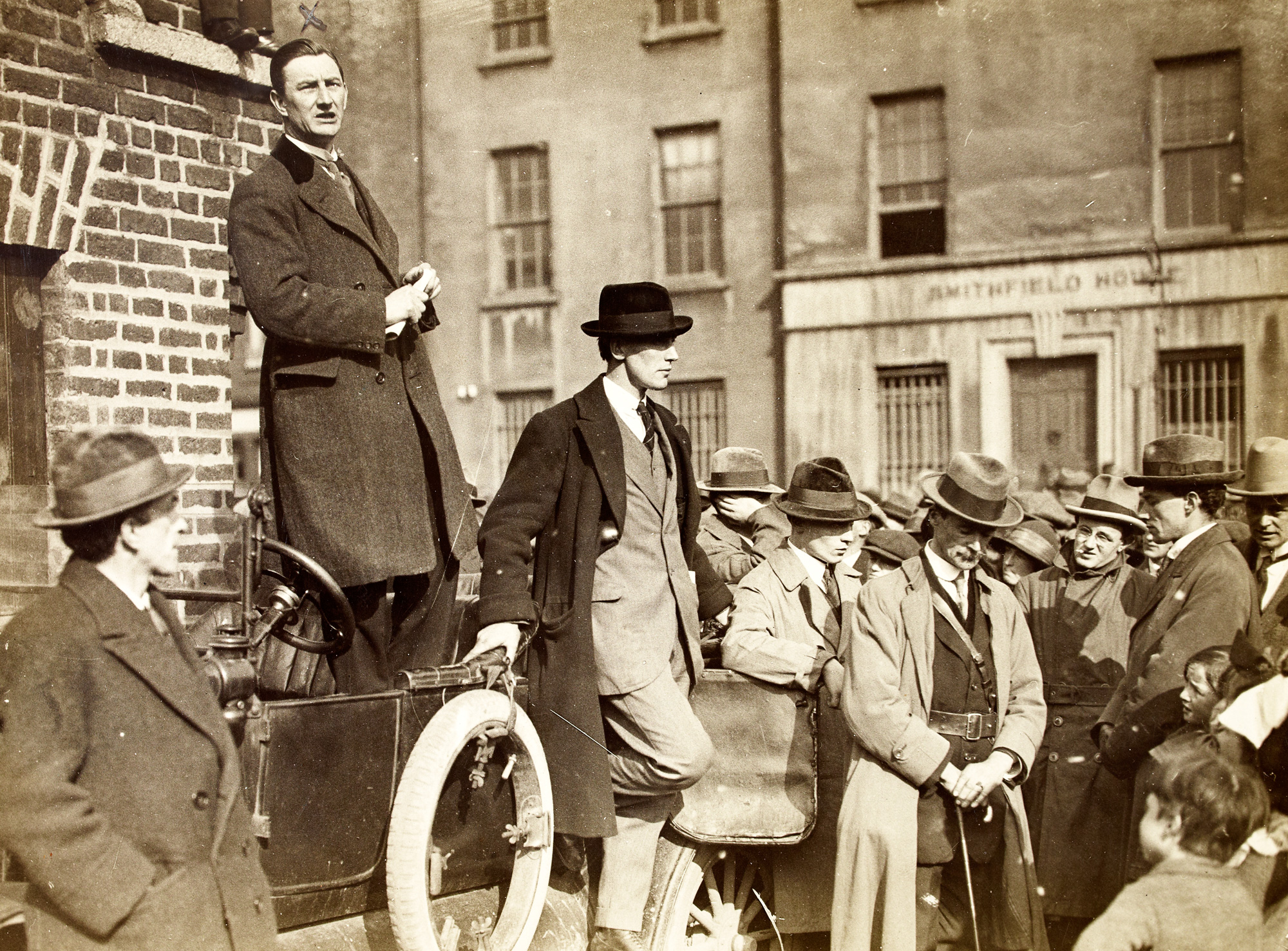 We were originally fairly sure this photo was taken on Monday, 10 July 1922, but wanted to know a lot more about it than we did. If correctly dated, this would have been taken 5 days after Oscar Traynor's anti-Treaty fighters had been defeated around O'Connell Street in Dublin, and 17 days before he was arrested and imprisoned in Gormanston Camp... We asked if any of you could help and there was a huge effort put into correctly dating this photo. Thanks to everyone involved, but ultimately, we have to thank Siulach who commented: "According to the Irish Independent, April 3, 1922, the Dublin City Brigade I.R.A. paraded at Smithfield on the 2nd "under officers who recognise the Executive established as a result of the recent Convention", and were addressed by Oscar Traynor, Rory O'Connor and F[rank] Henderson." The dating of this photo is particularly useful to us, because it allows us to accurately date other W.D. Hogan photos taken at this spot on Sunday, 2 April 1922! And also allows us add the Holy Trinity of tags: Location Identified; People Identified; Date Established... NLI Ref.: HOG228